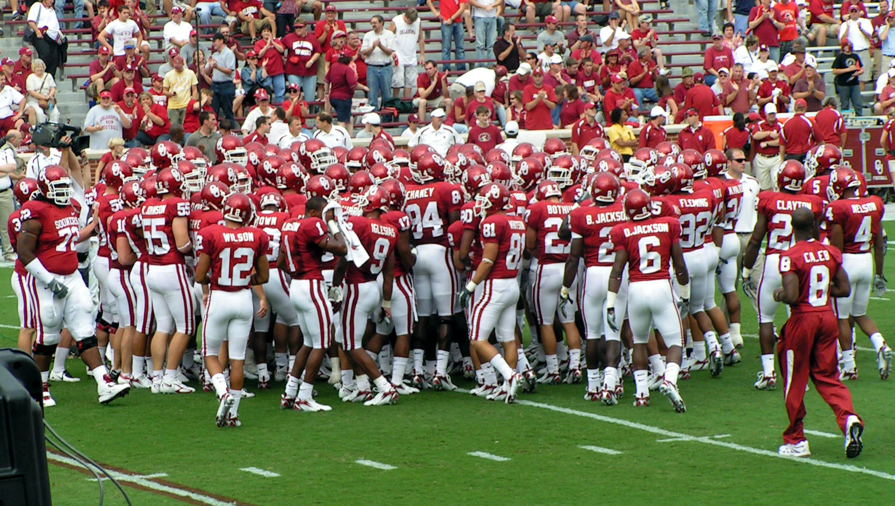 The Oklahoma Sooners football team huddle together before the start of their game against the Miami Hurricane.